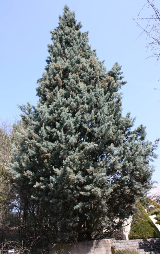 Cupressus glabra 'Fastigiata' (syn. C. arizonica var. glabra Fastigiata'). Brno, CZ Česky: Cupressus glabra 'Fastigiata' (syn. C. arizonica var. glabra 'Fastigiata') Brno, CZ